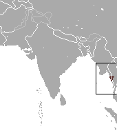 Tenasserim Lutung (Trachypithecus barbei) range